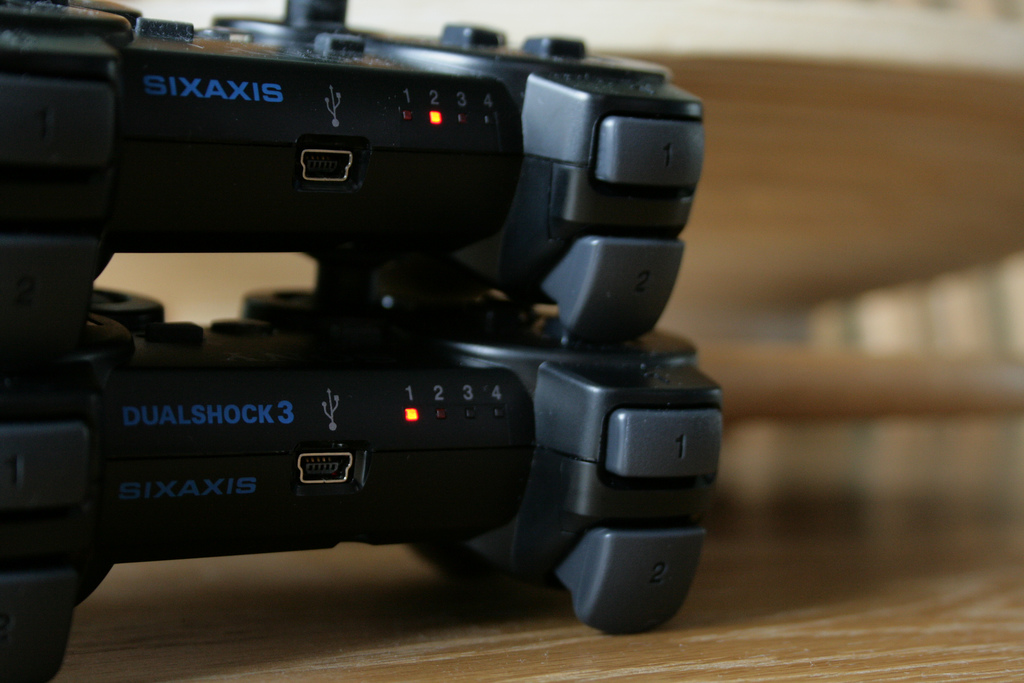 Sixaxis and DualShock 3 controllers for the PlayStation 3.